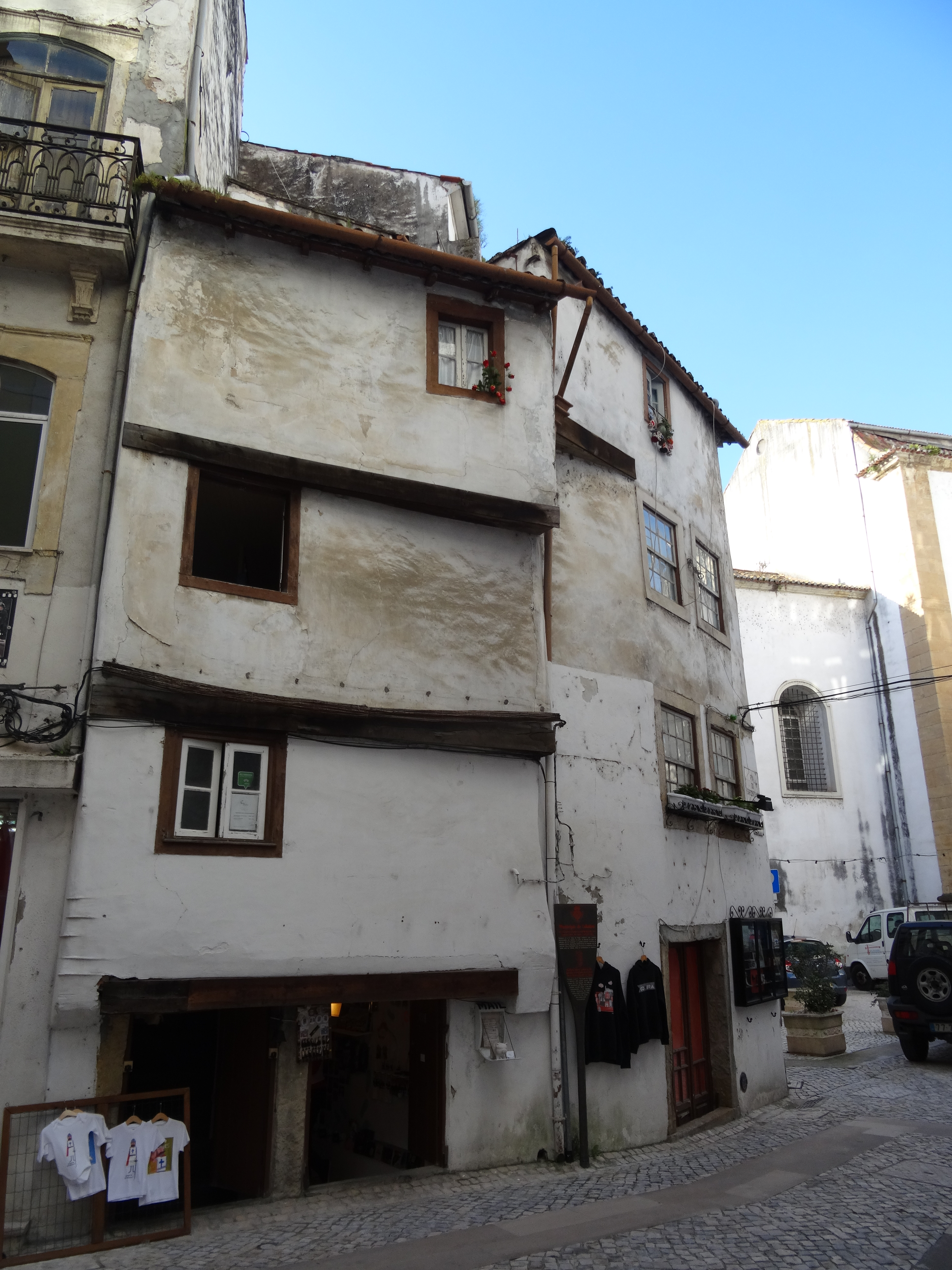 Coimbra Medieval House Sobrado